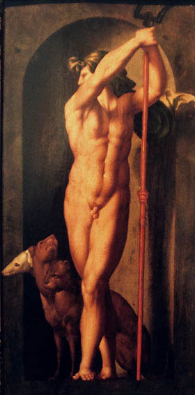 In Greek mythology Hades was the god of the underworld, here depicted holding a bident